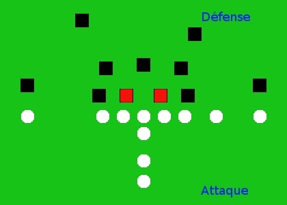 defensive tackles positions on the field (football)